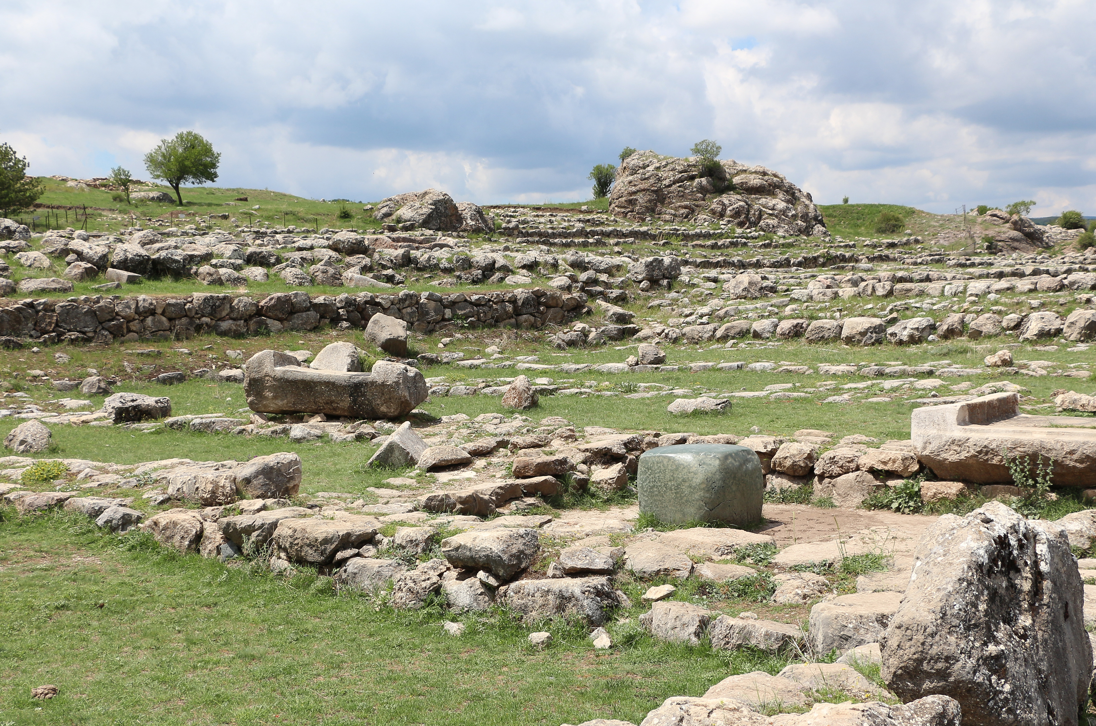 Lower City of Hattusa, Turkey